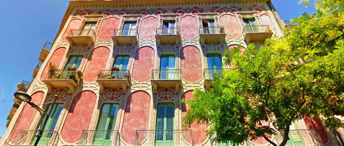 Palazzo Rosa, Via VI Aprile, Catania, arch. Fabio Maiorana (1)